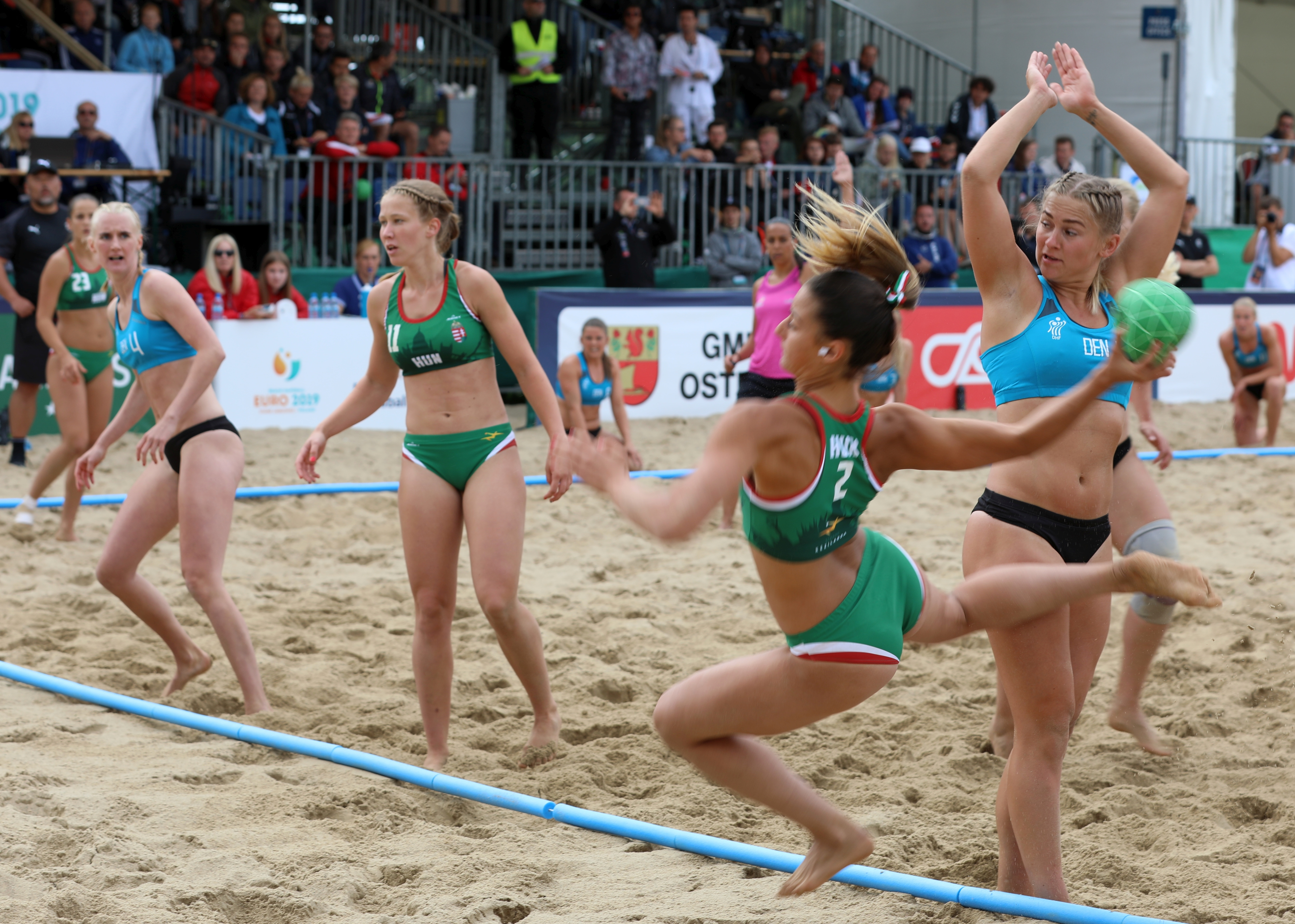 Beach handball Euro; Day 6: 7 July 2019 – Women's Final – Denmark-Hungary 2:0 (18:12, 23:22)